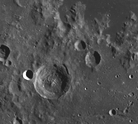 White lunar crater - LROC image.